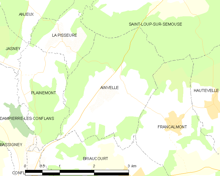 Map of French municipality